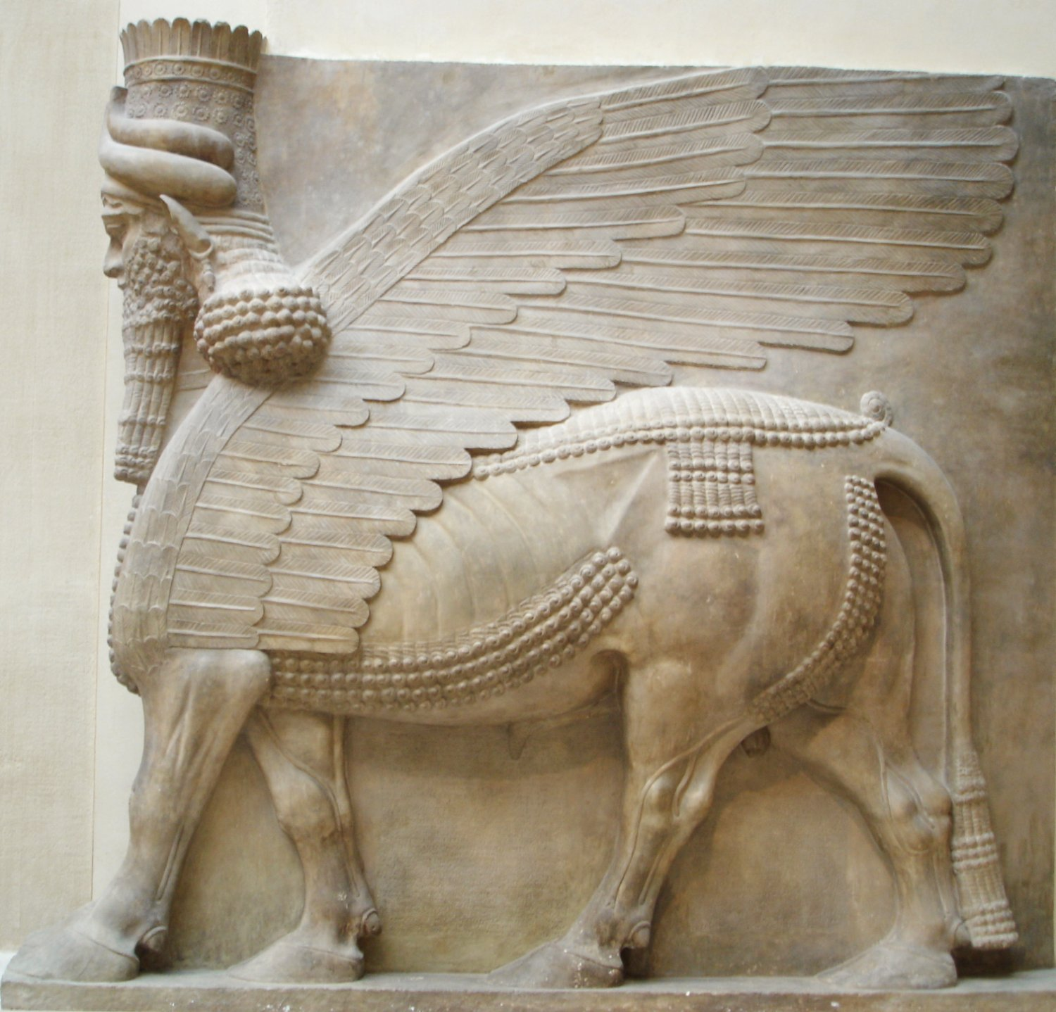 Lamassu (Human-headed winged bull) heading left. Relief from the m wall, k door, of king Sargon II's palace at Dur Sharrukin in Assyria (now Khorsabad in Iraq), ca. 713–716 BC.